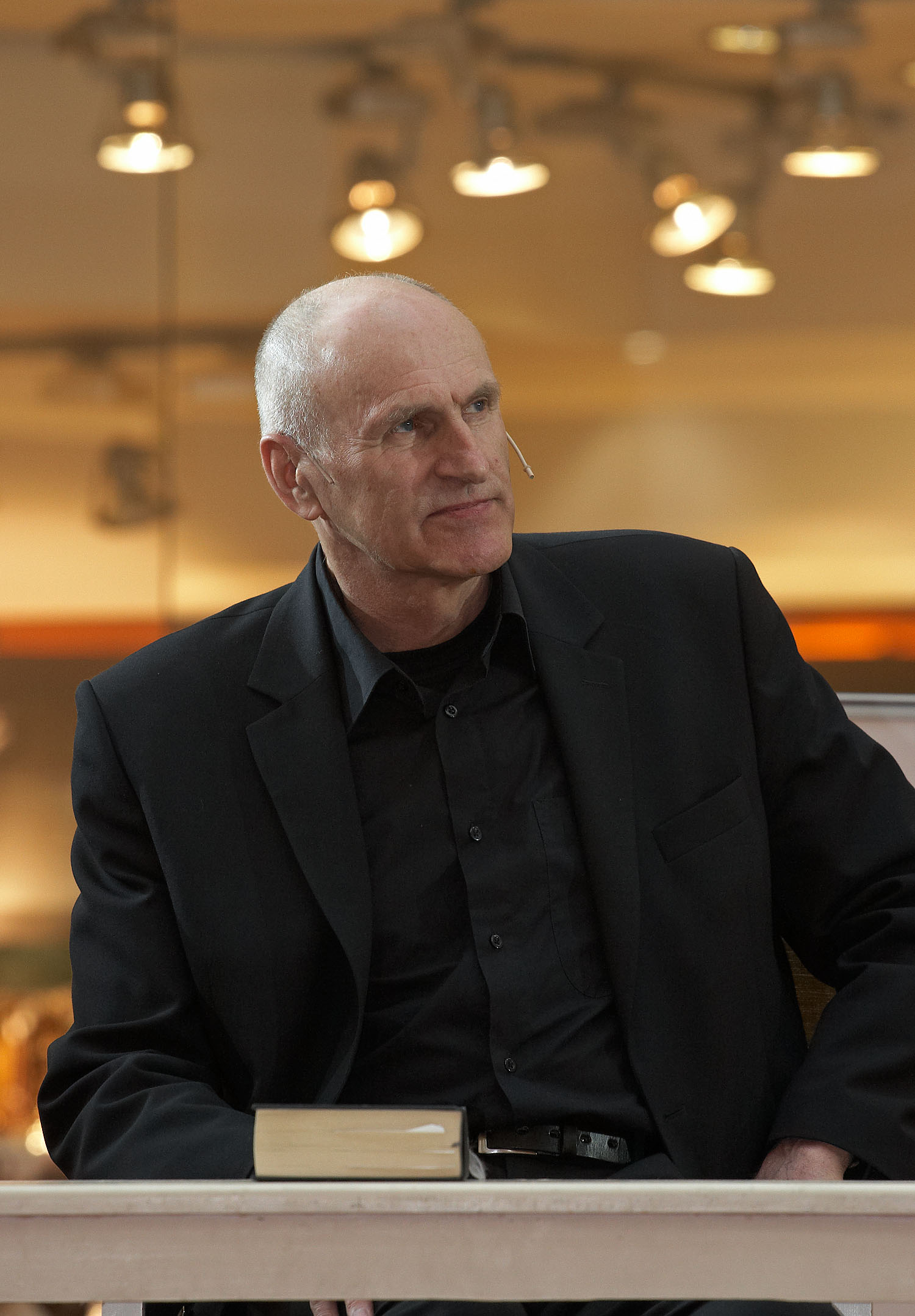 Martin Hilský